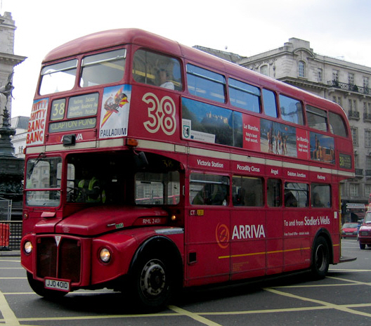 Arriva London Routemaster bus RML2401 (reg. JJD 401D) route branded for and operating route 38, pictured in Piccadilly Circus heading for Clapton Pond.